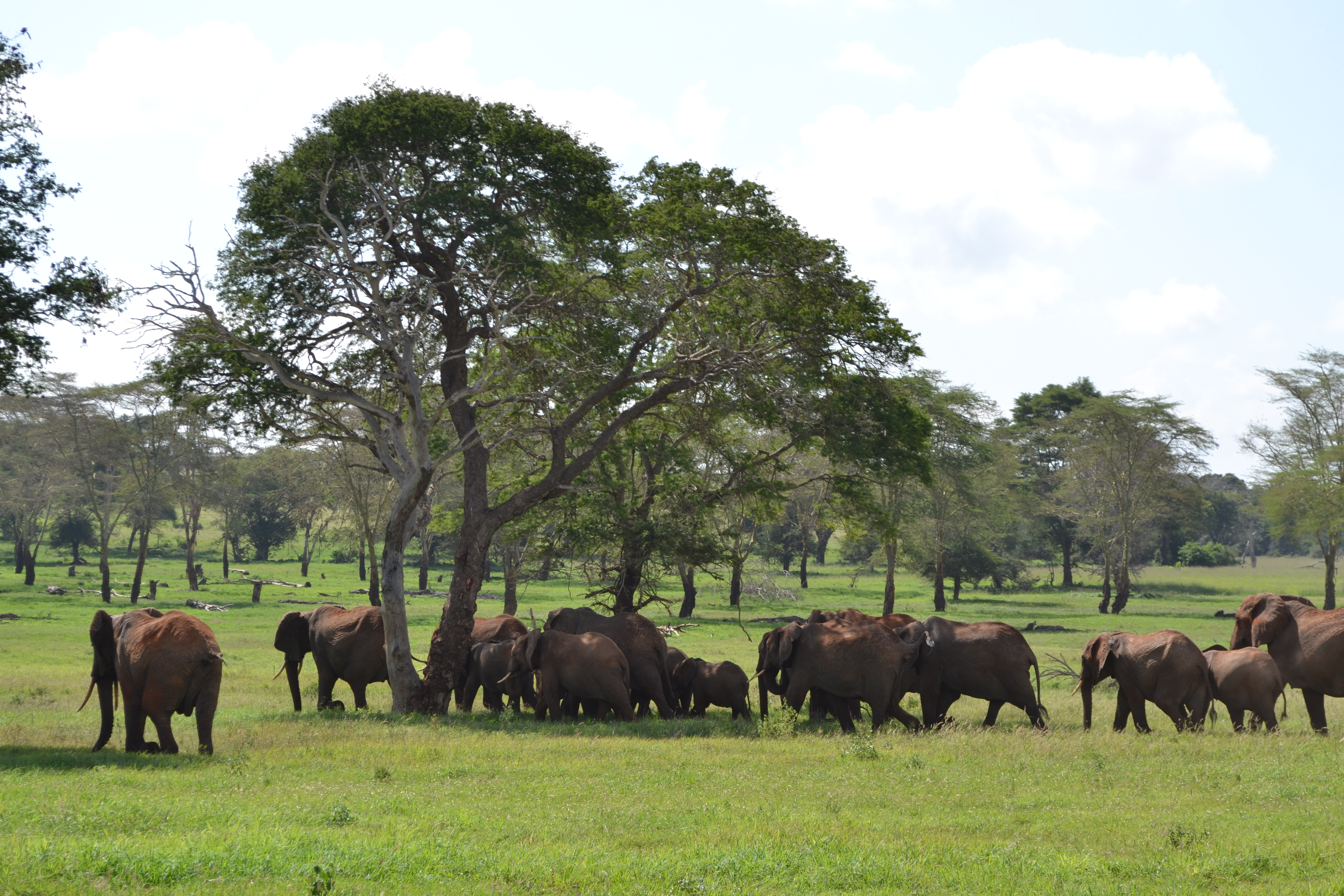 Group of Loxodonta africana (African bush elephants), next to a dirt road, south-west of Salt Lick Game Lodge, near the eastern boundary of the LUMO Community Wildlife Sanctuary, in Taita Hills Wildlife Sanctuary, Kenya.